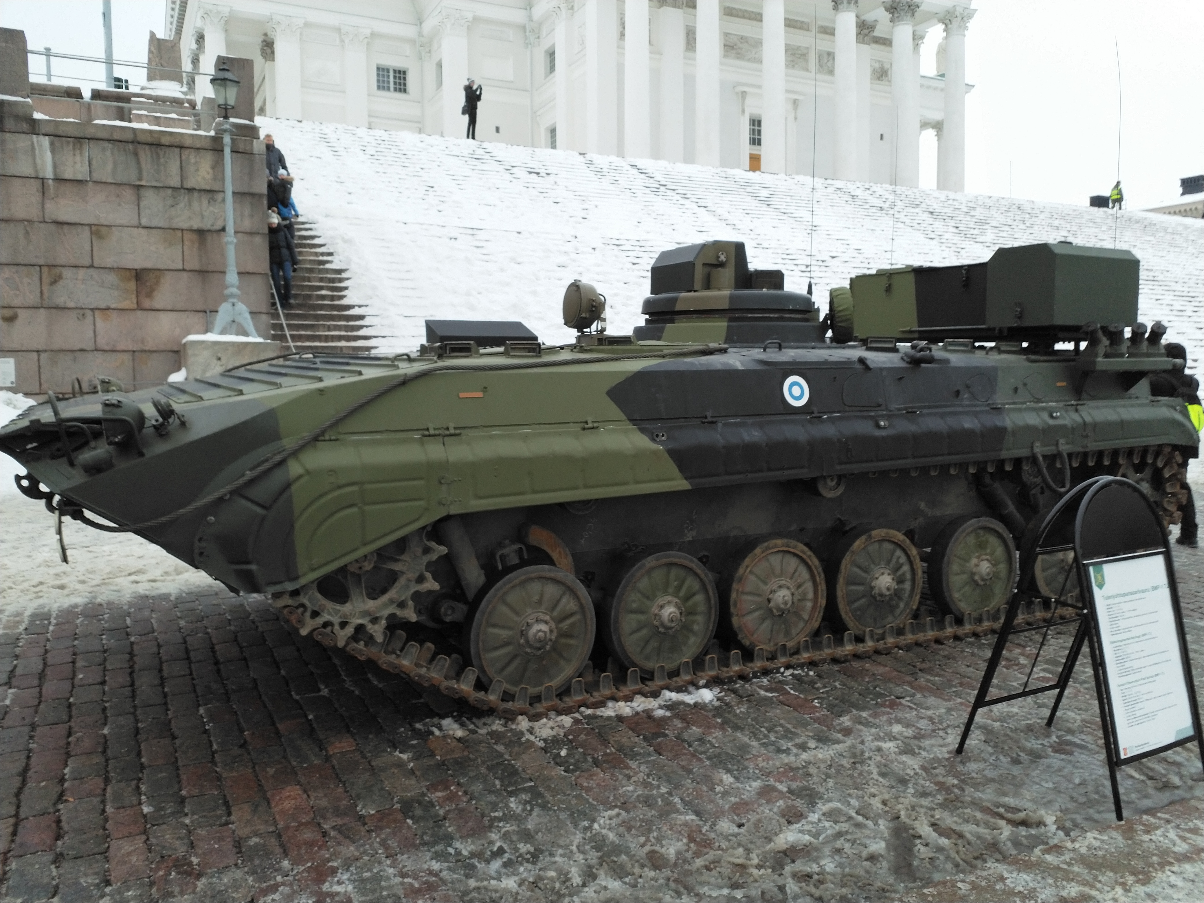 A Finnish BMP-1 TJ artillery observation vehicle in the 100th anniversary event of the Finnish field artillery and Field Artillery School of the Finnish Defence Forces, on 9th February 2018.